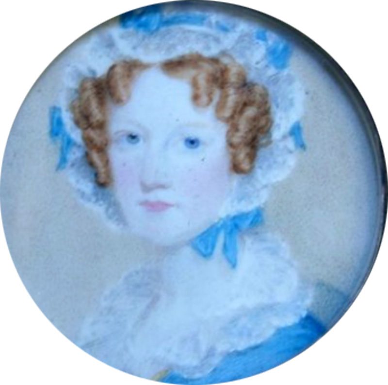 Mary Churchill resident of a house in Sunninghill, Berkshire 1830